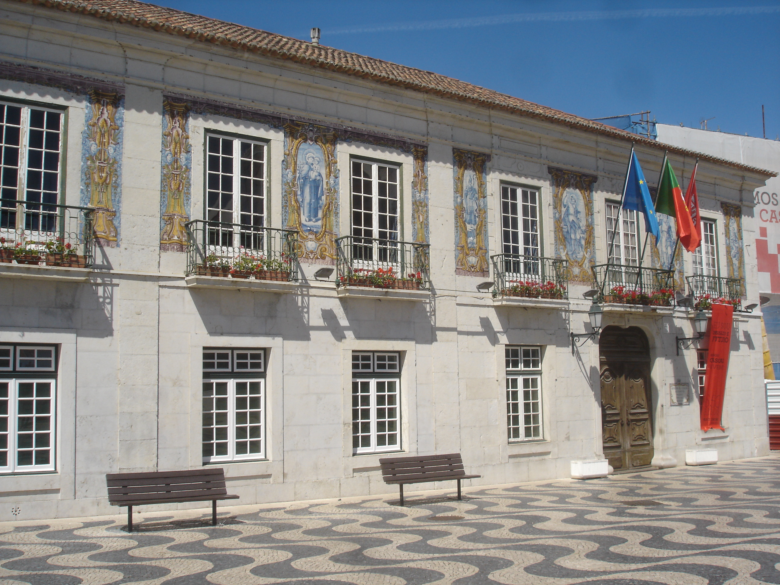 Main façade of the Cascais town hall